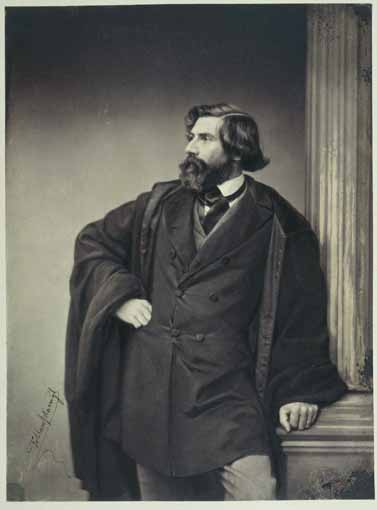 The german architect Ludwig Lange (1808-1868)